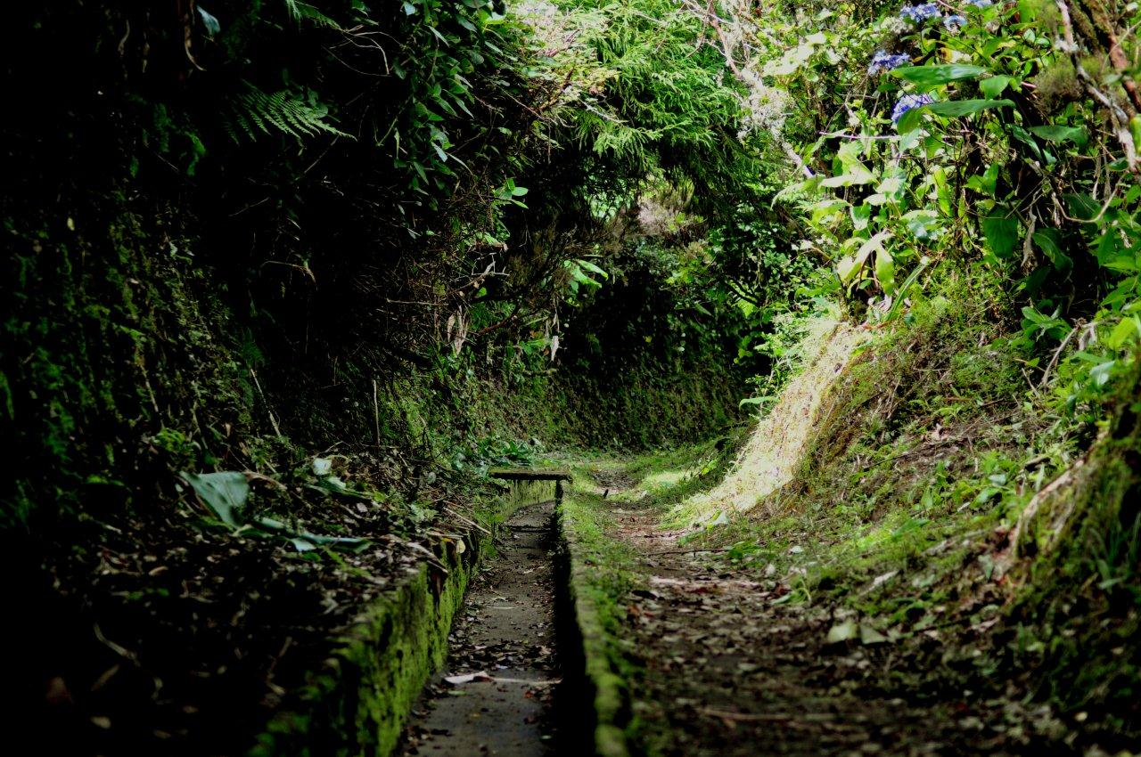 Levada (Water channel)